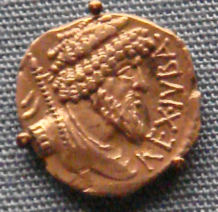 Juba_denarius_in_support_of_Pompey_against_Cesar_60_46_BCE